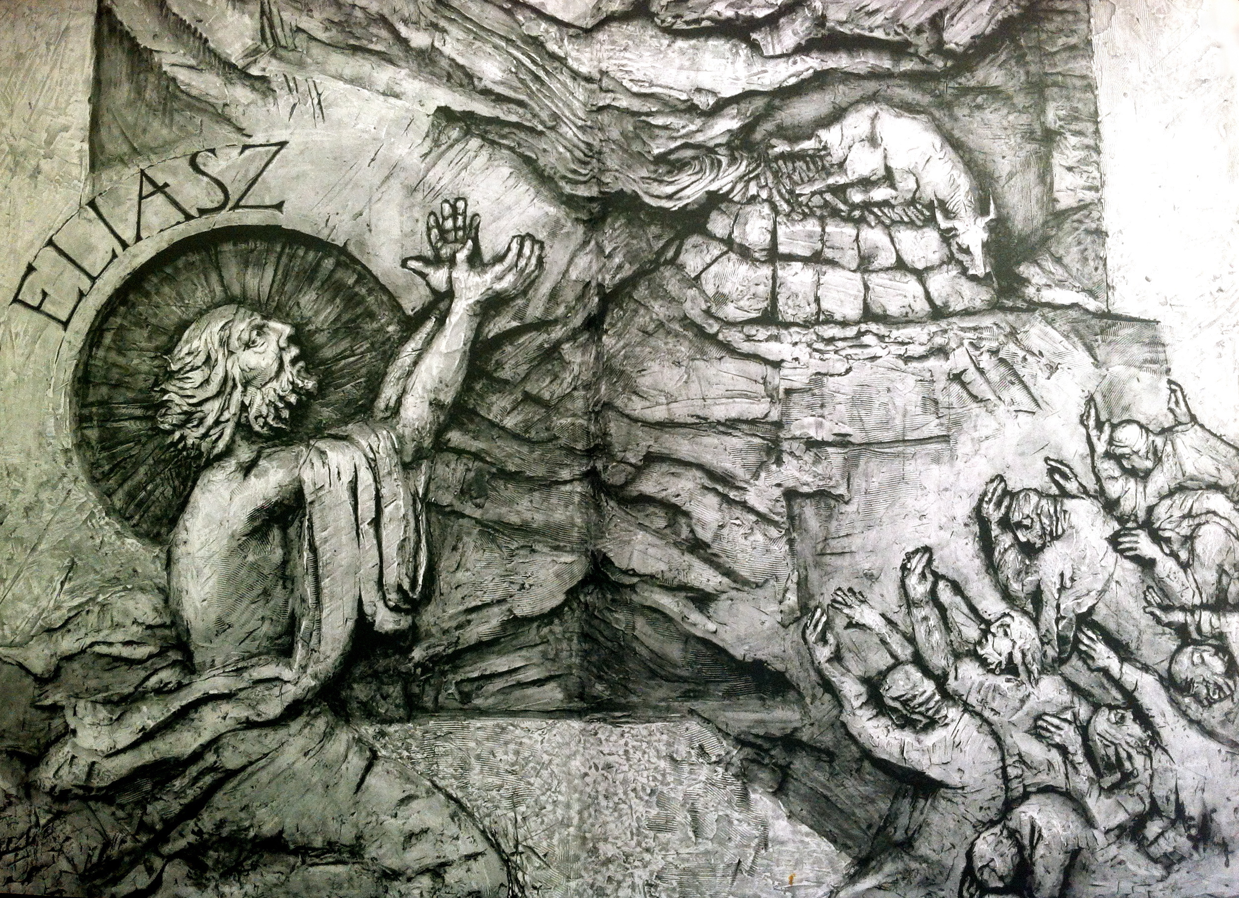 Wojciech Gryniewicz,płaskorzeźba "Eliasz" 2000: Kaplica Chrystusa Miłosiernego - Kościół Najświętszego Serca Jezusowego w Łodzi